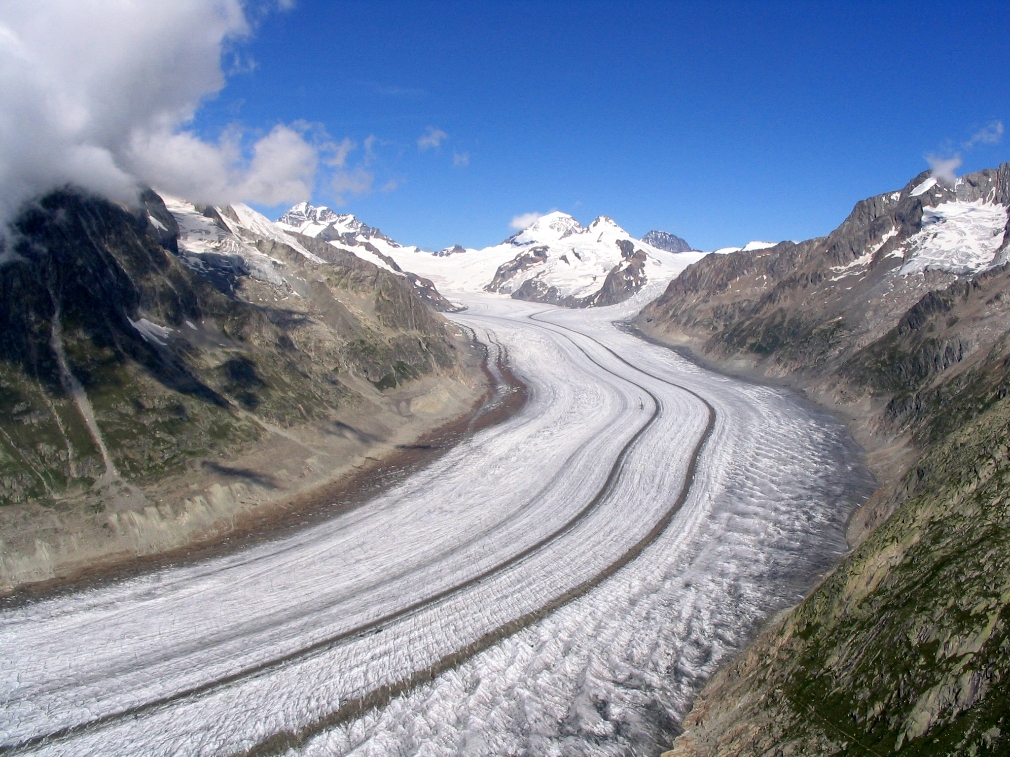 Grosser Aletschgletscher (Bernese Alps), view from Eggishorn (2.927 m), in the background Jungfrau (4.158 m), Jungfraujoch (3.454 m), Mönch (4.099 m), Trugberg and Eiger (3.970 m)